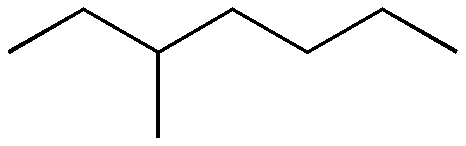 chemical structure of 3-methylheptane